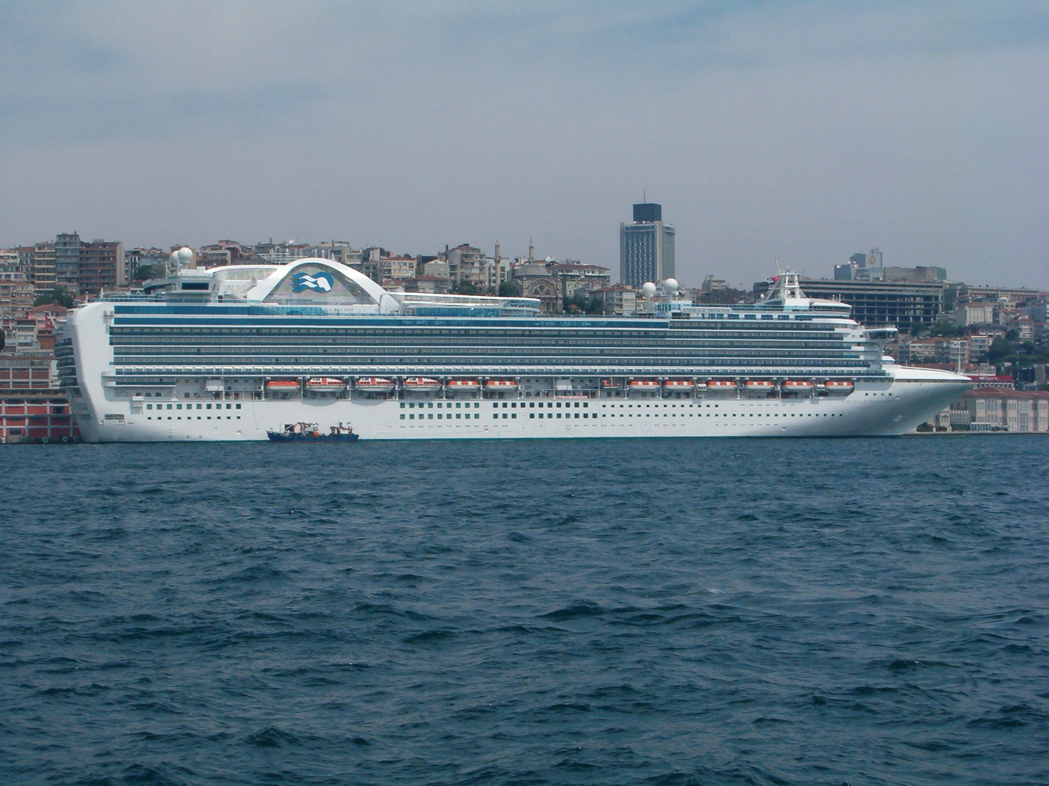 Emerald Princess in Istanbul IMO Number: 9333151 MMSI Number: 310531000 Callsign: ZCDP8 Length: 289.0 m Beam: 36.0 m